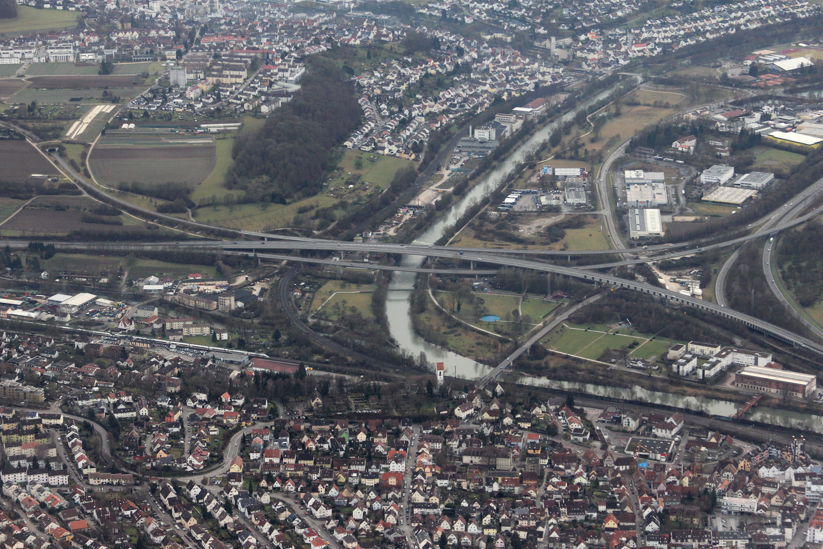 Near Plochingen in southern Germany (Baden-Württemberg, district of Esslingen) the federal road #313 branches southwards starting from the federal road #10. Additionally, the picture shows an ICE3 highspeed train on the Filstalbahn (Stuttgart-Munich connection) as well as the little river Fils joining into the Neckar. This picture was taken roughly facing South.